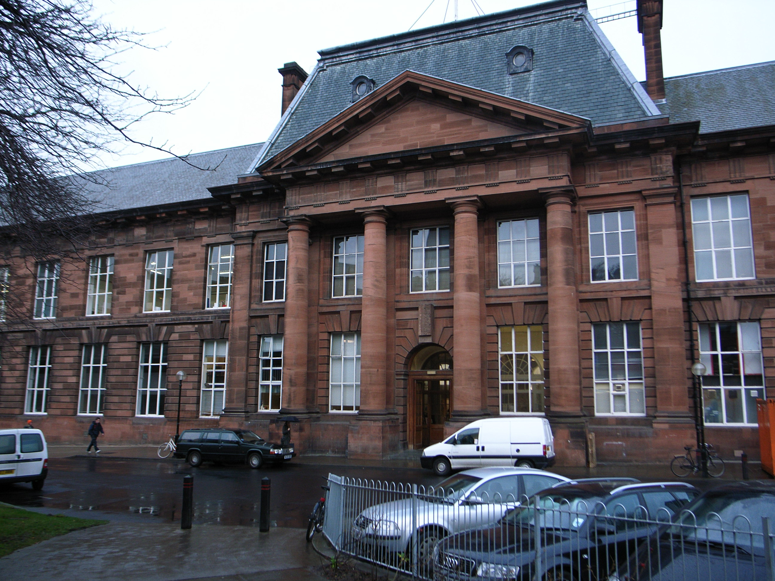 Front of Edinburgh College of Arts. Dist under Creative Commons Attribution 2.0 Generic